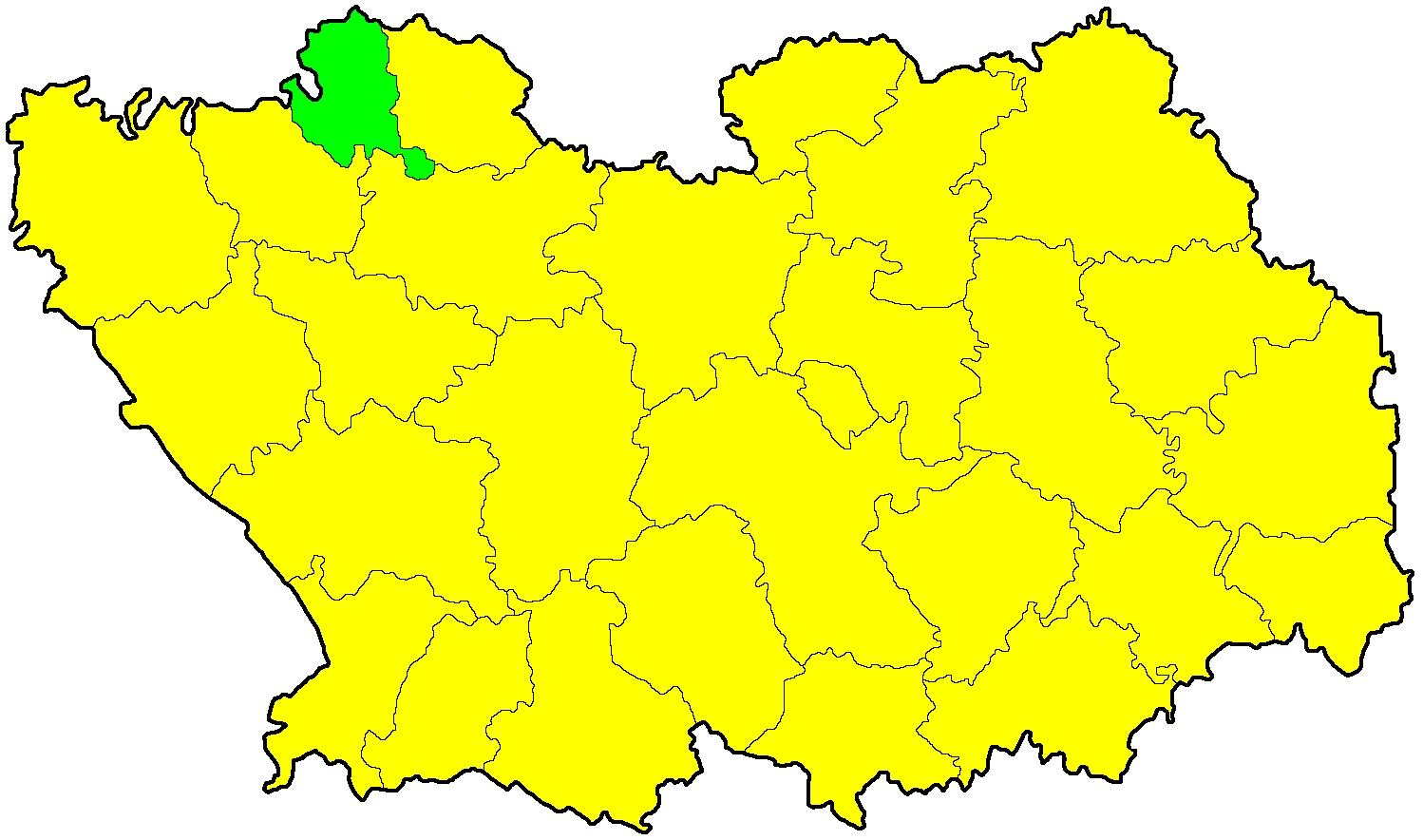 Spassky District, Penza Oblast, Russia